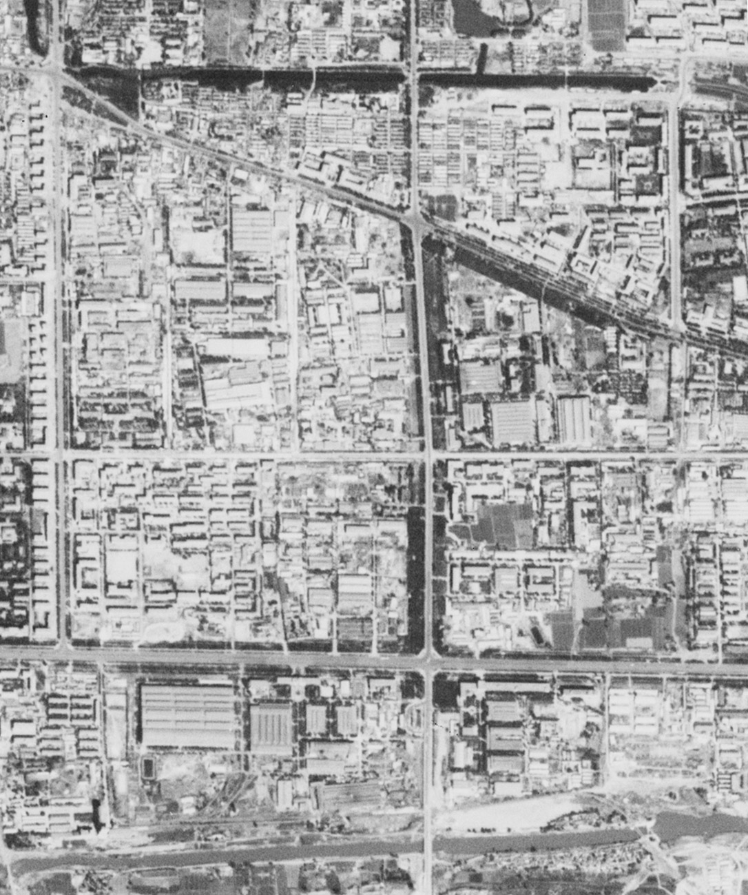 Beijing CBD before bussiness construction. Spatial tentatively corrected. 中文（中国大陆）: 商业开发前的北京CBD。空间上尝试性矫正过。